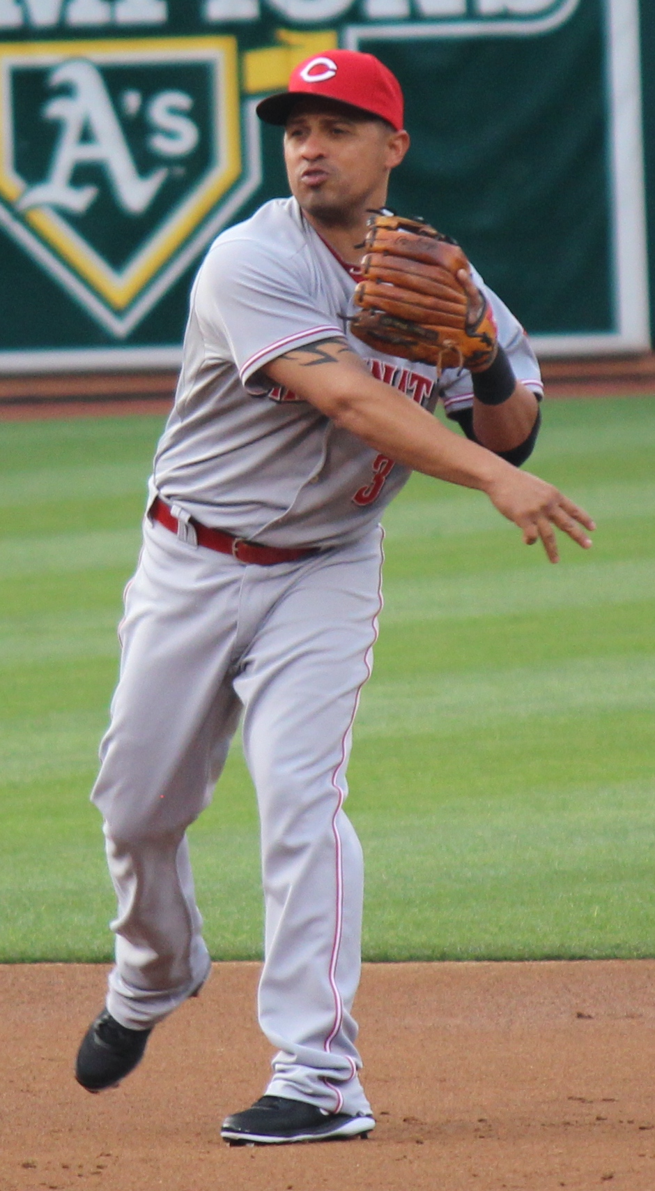 Photo of César Izturis, 2013-06-25, Oakland CA